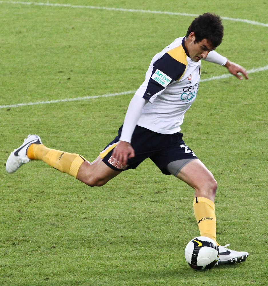 Mile Jedinak playing for the Central Coast Mariners against Sydney FC in round 10 of the 08/09 A-League